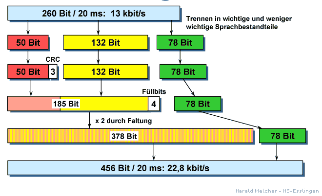 GSM Fullrate Codec